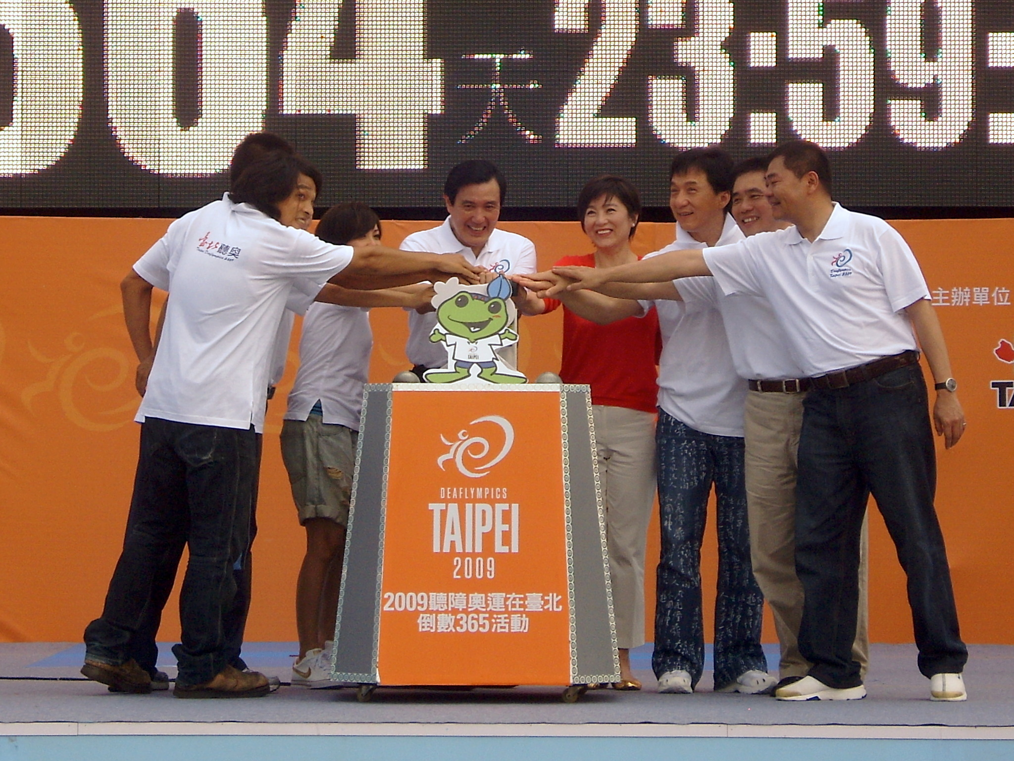 Summer Deaflympics 2009 "Power in me" 1y Countdown Warming Up: The Countdown Launch.